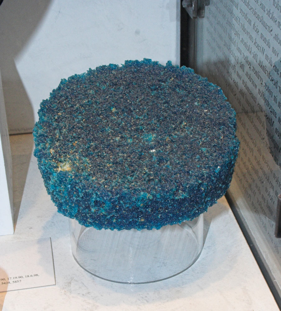 Information Description: Blue glass bar from the shipwreck at Uluburun. Source: own work Date: June 2006 Author: Martin Bahmann